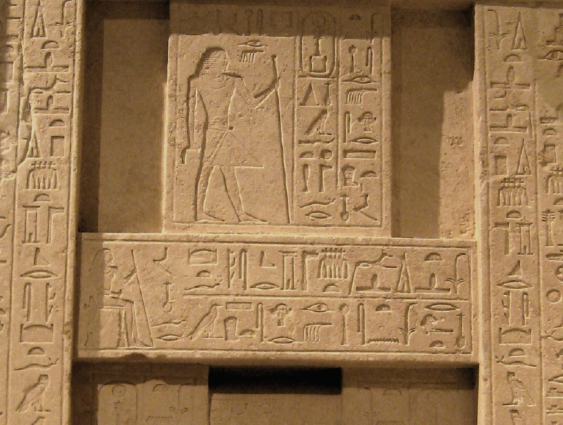 Main relief from the false door of Manefer, depicting the deceased with his name and titles in front of him. Time of Djedkare Isesi - 5th dynasty of Egypt - Egyptian museum of Berlin